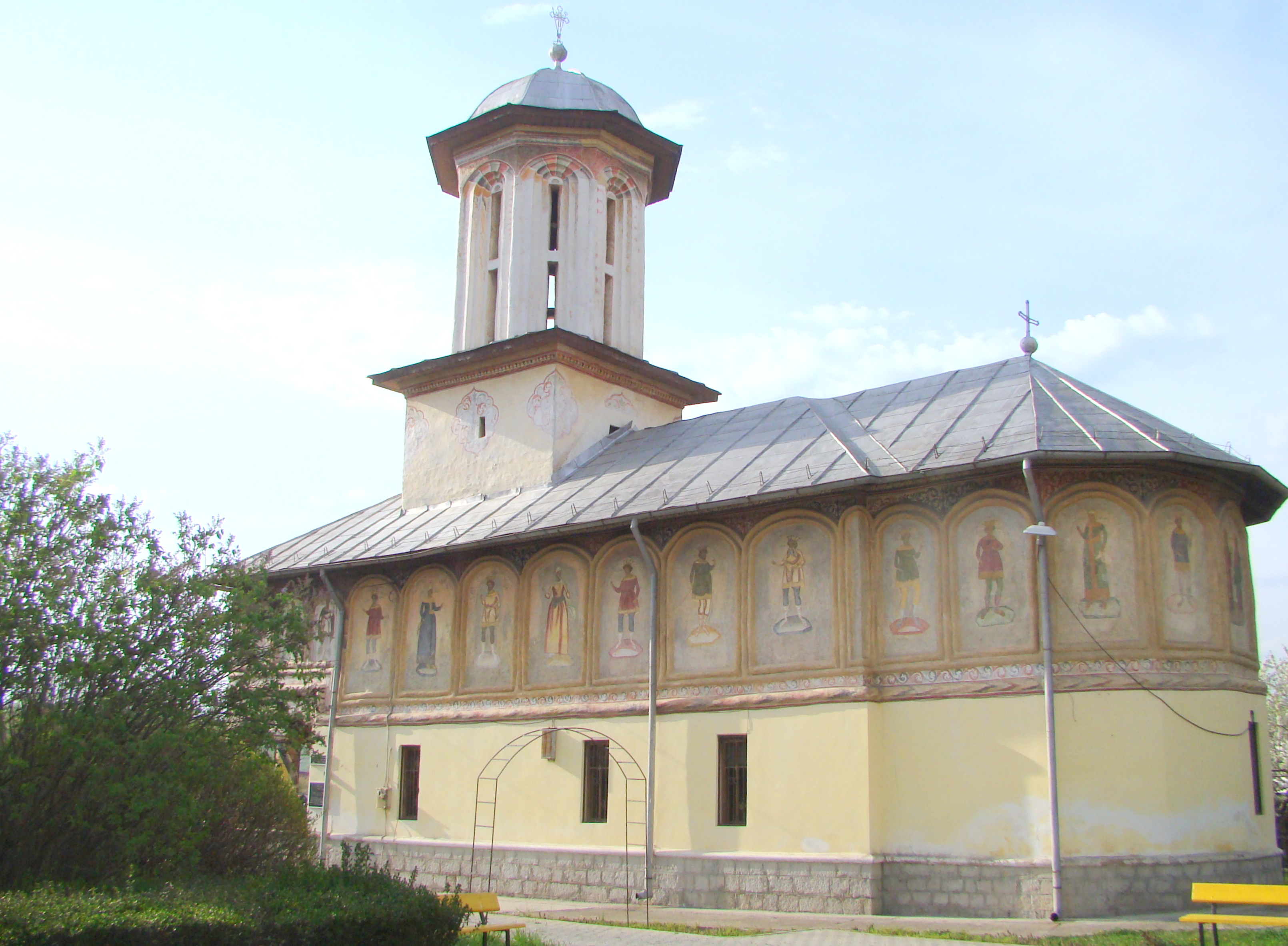 Church of Saint Nicholas and Saint Andrew in Târgu Jiu, Gorj county, Romania